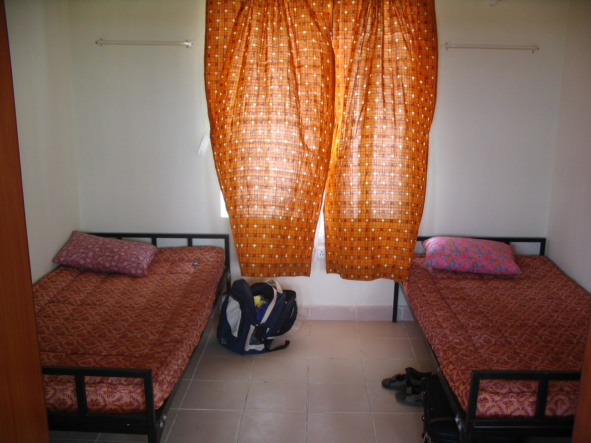 Chennai Mathematical Institute hostel room